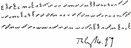 Image of the Dorabella Cipher text, written by Edward Elgar in 1897